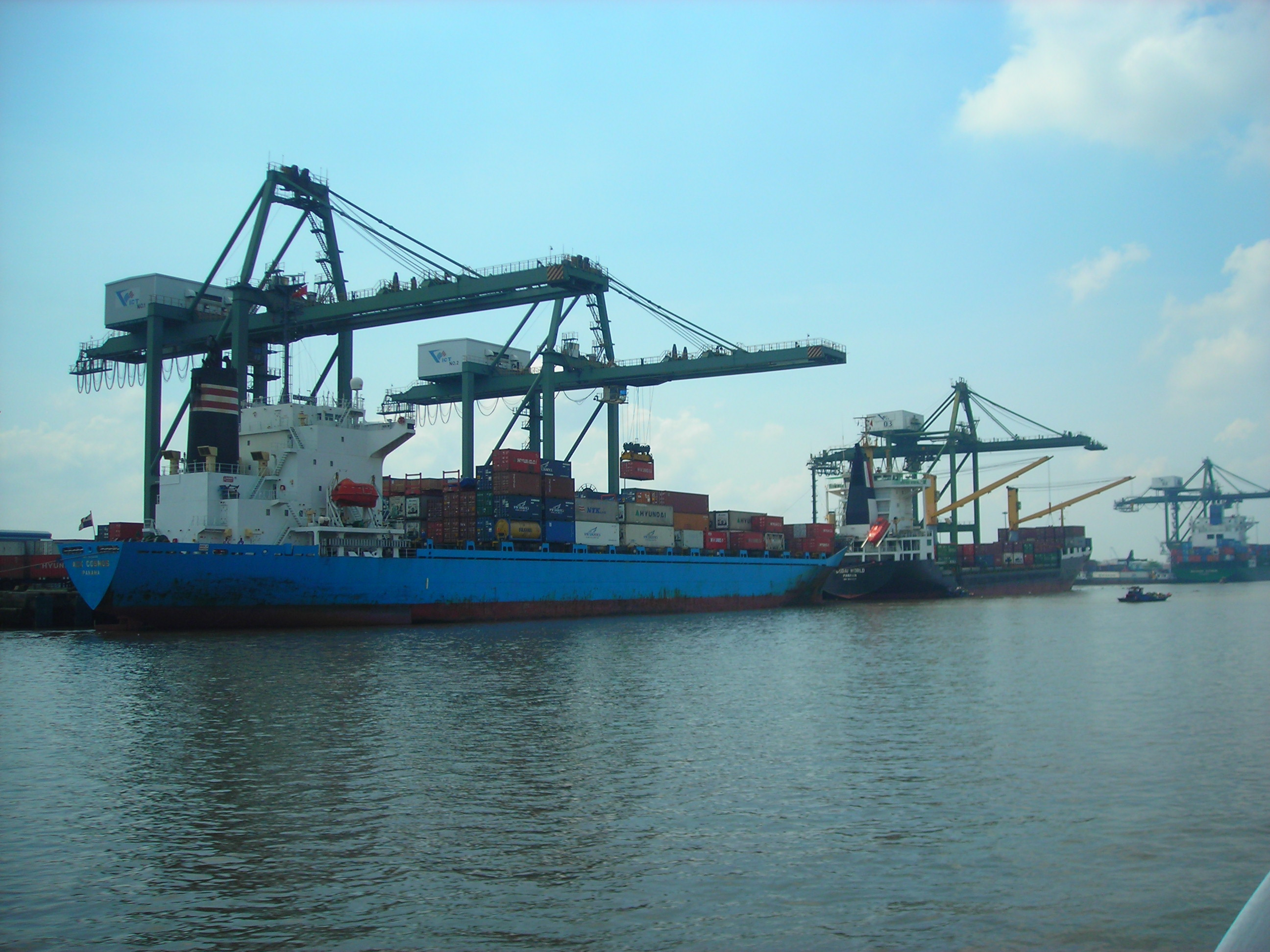 Saigon Port with the ACX COSMOS and DUBAI WORLD ACX COSMOS IMO Number: 9104146 MMSI Number: 354724000 Callsign: 3FVD4 Length: 163 m Beam: 26 m DUBAI WORLD IMO Number: 8908521 MMSI Number: Callsign: H3AZ Length: 157 m Beam: 22 m